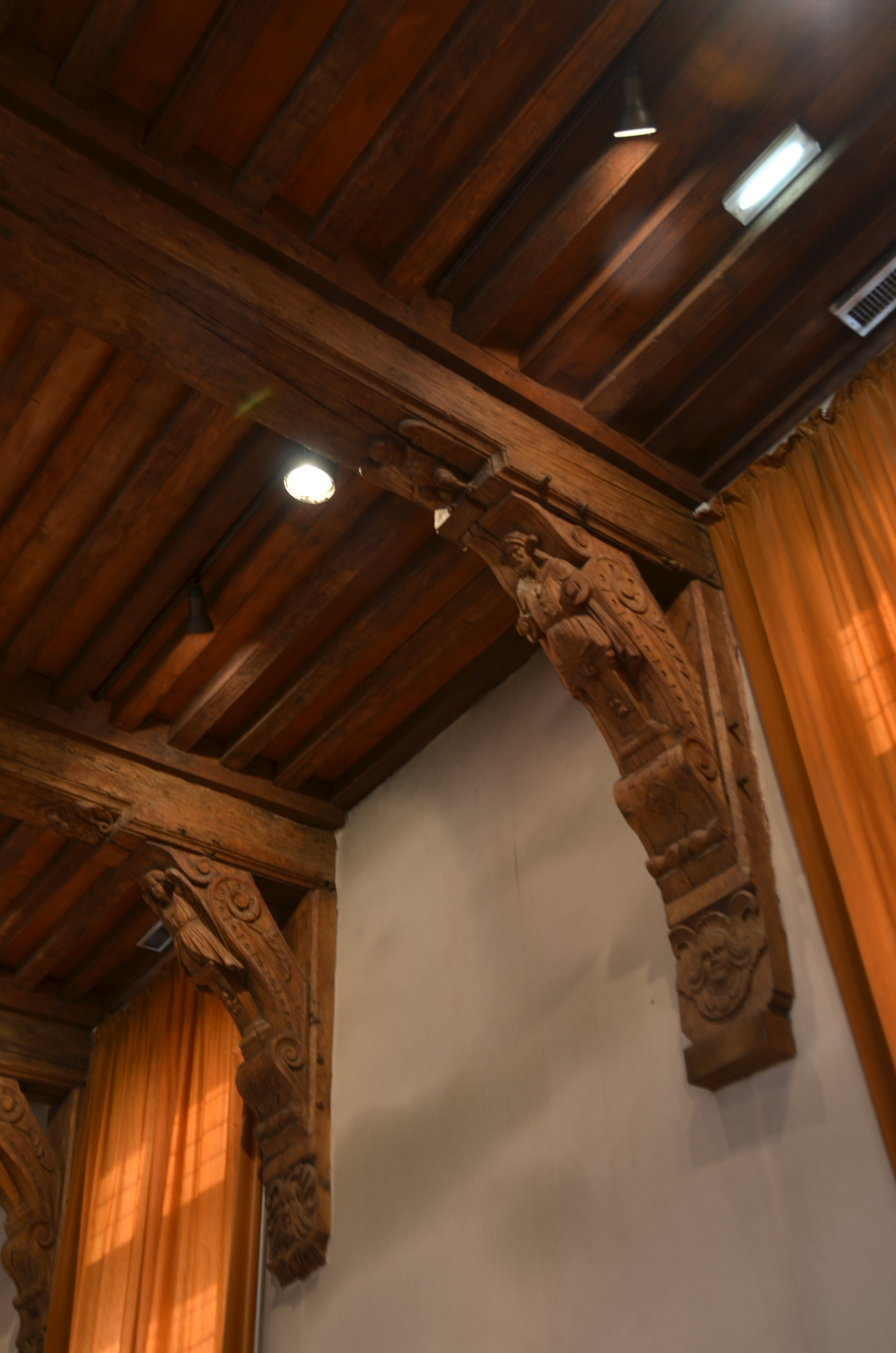 The Anchin halls of Douai (Nord, France).